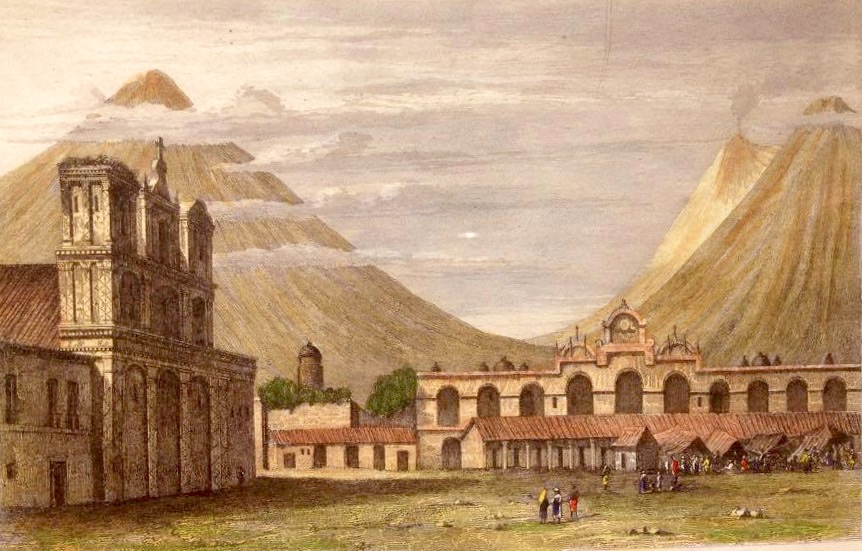 Antigua Guatemala c. 1840. Central Plaza with volcanoes in the distance. By Frederick Catherwood. Image caption. Also see the page link to the entire book